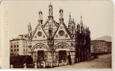 Giacomo Brogi (1822-1881), "Pisa - Santa Maria della Spina". Catalogue # 3336.